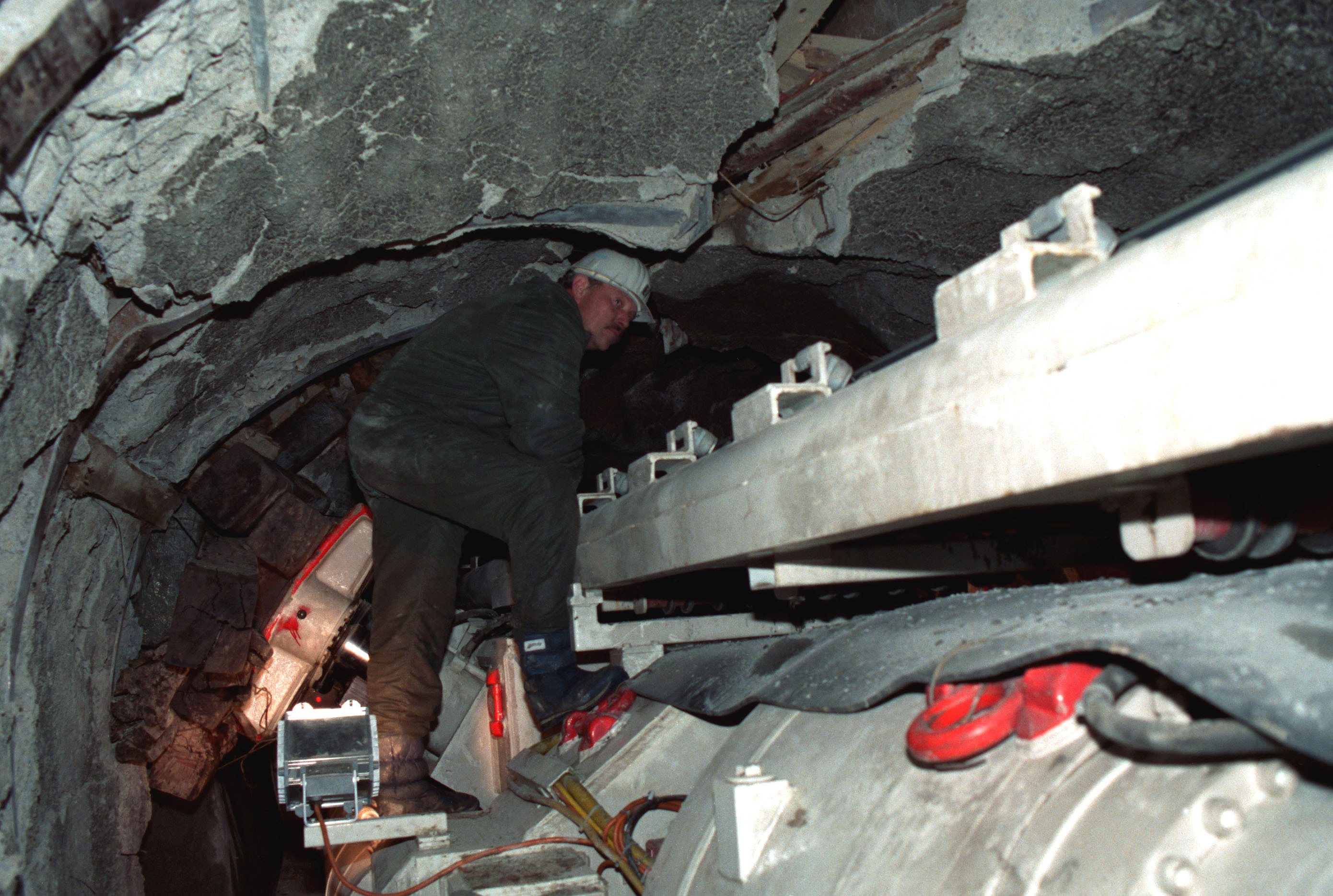 A West German engineer inspects a tunnel boring machine inside a South Korean counter-tunnel constructed to eliminate the value of North Korean tunnel No. 4 by intersecting it. Both tunnels are located near Kach'il-Bong Peak.